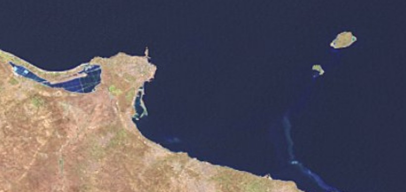 Satellite image of Kuriat Archipelago near Monastir (Tunisia)